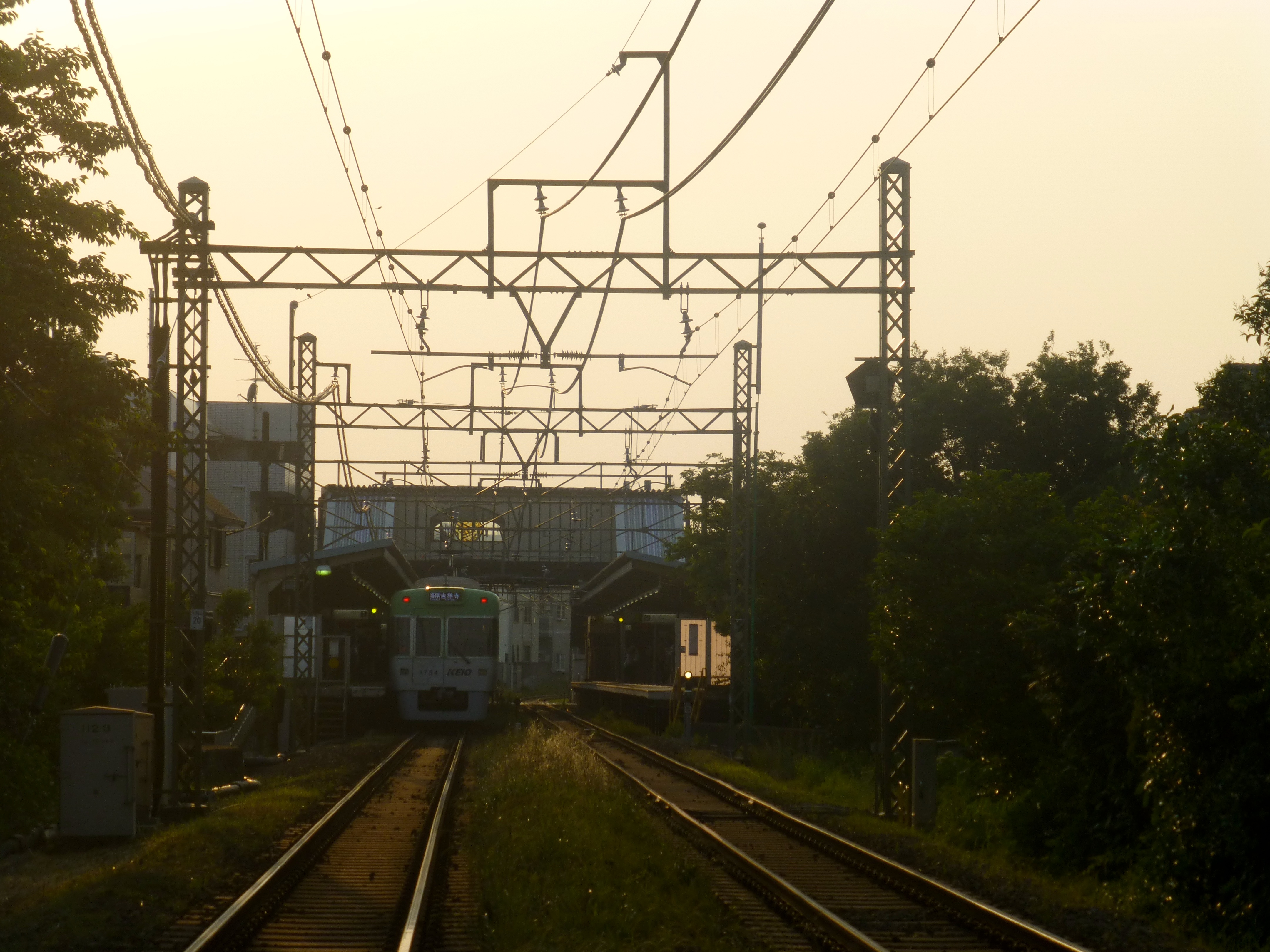 Mitakadai Station platforms (三鷹台駅のホーム)